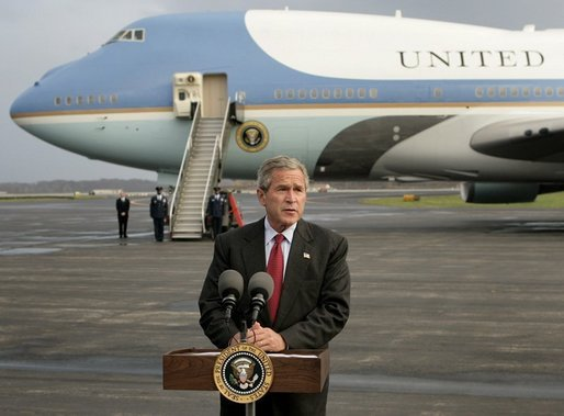 President George W. Bush delivers at statement to the media in front of Air Force One at Toledo, Ohio Express Airport, Friday, Oct. 29, 2004. White House photo by Eric Draper